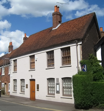 The Fat Duck, High Street, Bray One of the most famous restaurants in the country, ran by tv chef Heston Blumenthal, this Michelin 3 star restaurant is known for its experimental menu. This is one of only three Michelin 3 star restaurants in the UK, another of which is also in Bray just down the road. 1271187 Formerly a public house. Grade II listed